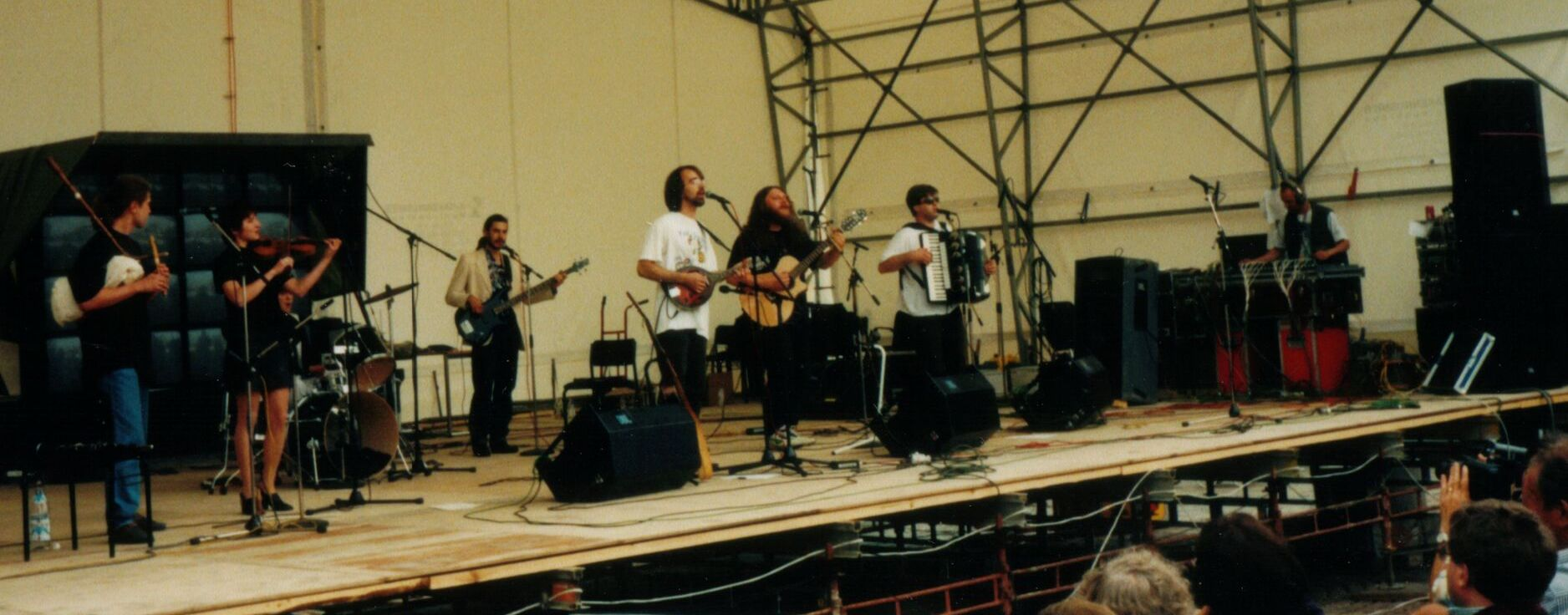 Folk rock group Myllärit from Petrozavodsk, Russia performing in Senate square of Helsinki in June 1997.